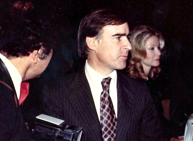 California Governor Jerry Brown at the premiere of Sylvester Stallone's movie F.I.S.T.